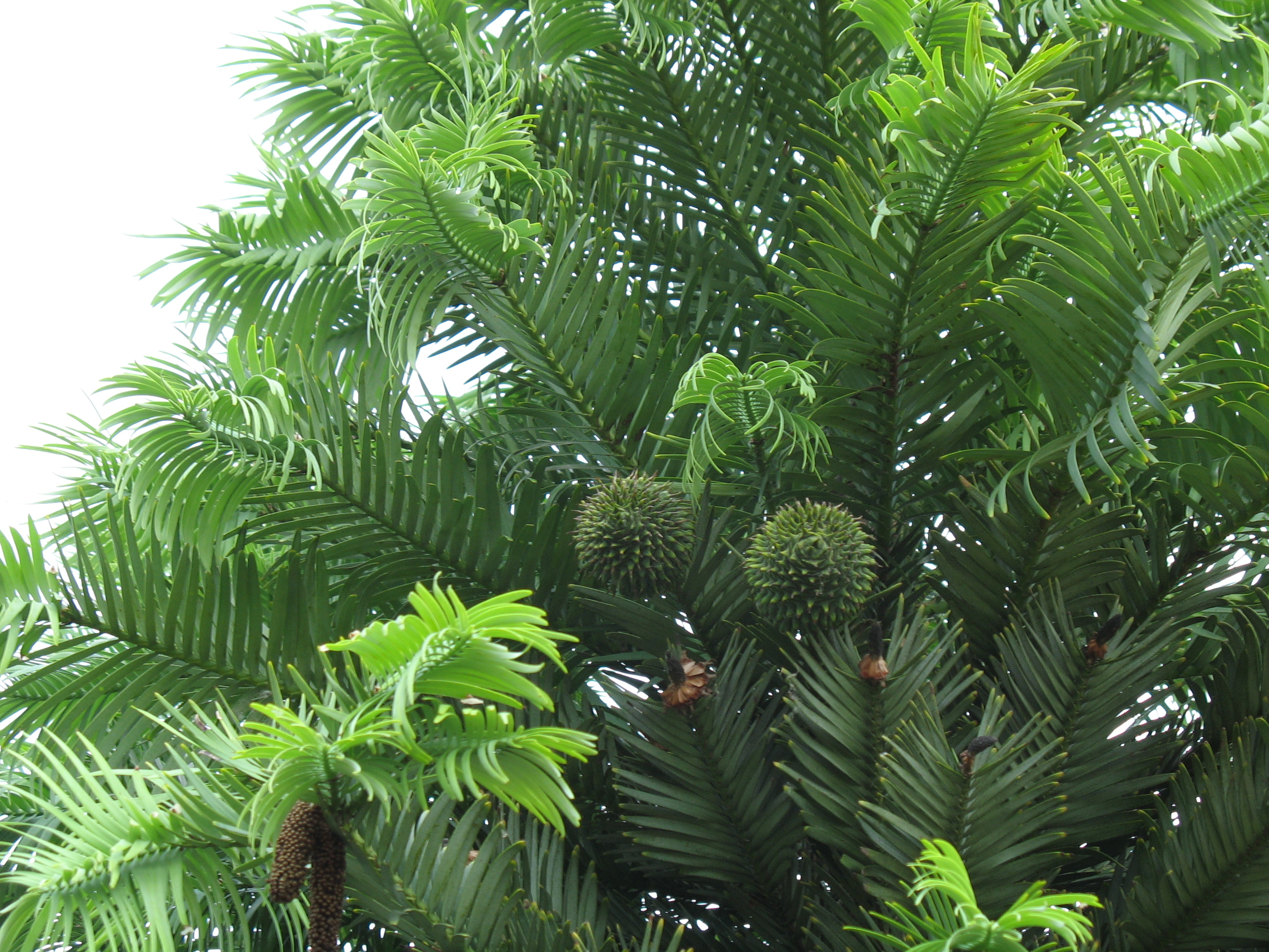 Closeup of Wollemia male and female cones in Kew Gardens